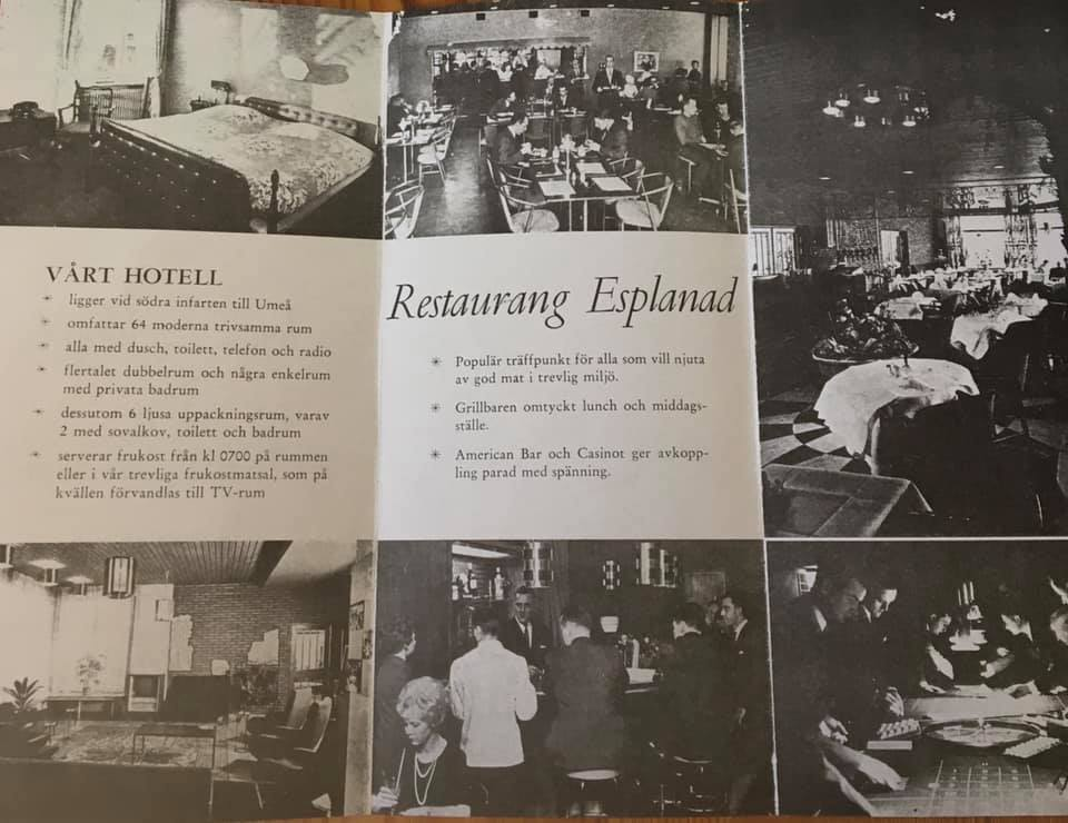 Brochure from Restaurang Esplanad in Umeå, around 1965.